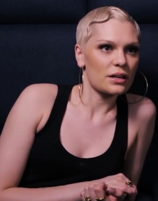 Jessie J interview Backstage at The O2